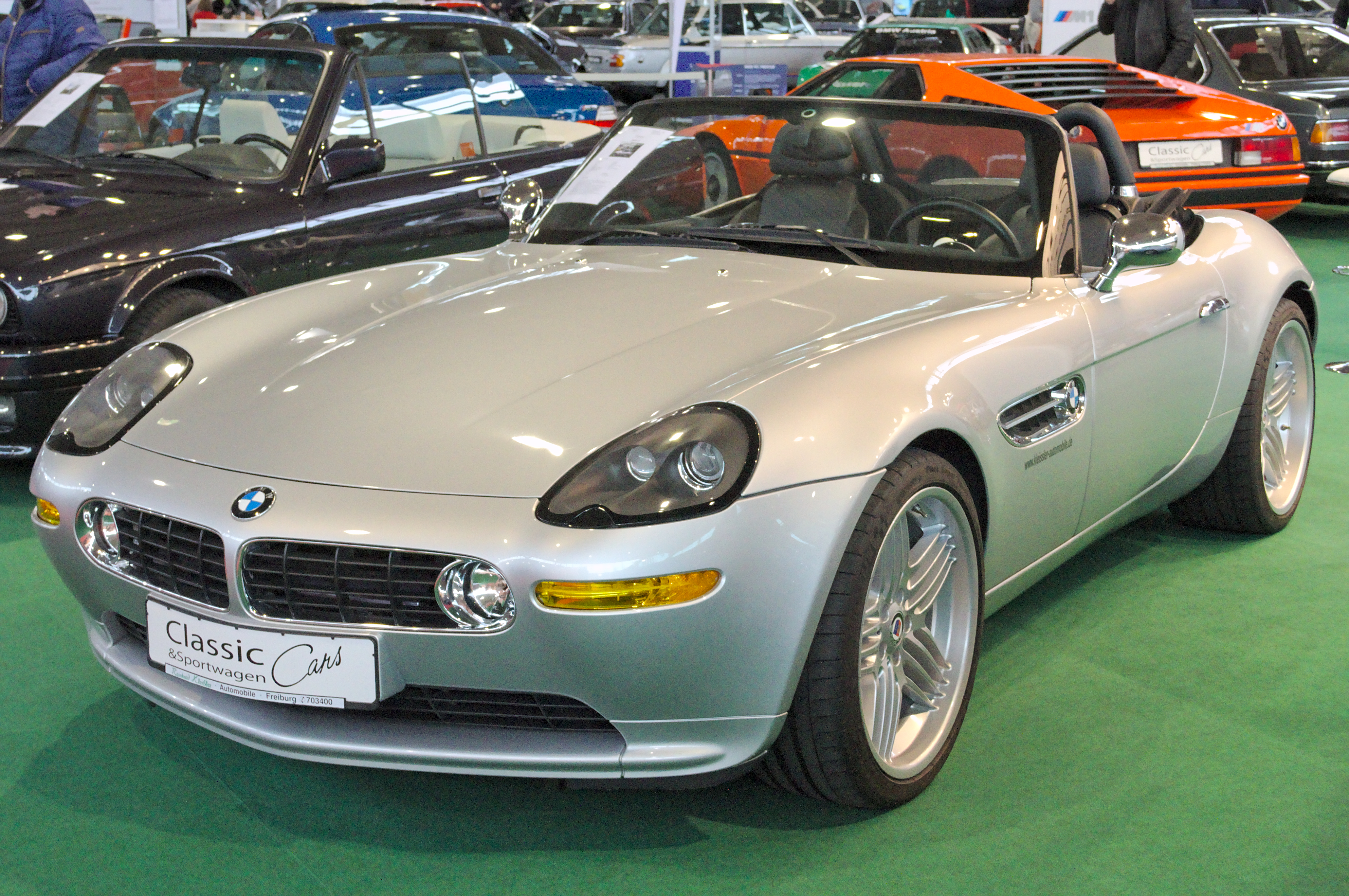 BMW_E52_(Alpina) at Retro Classics 2020